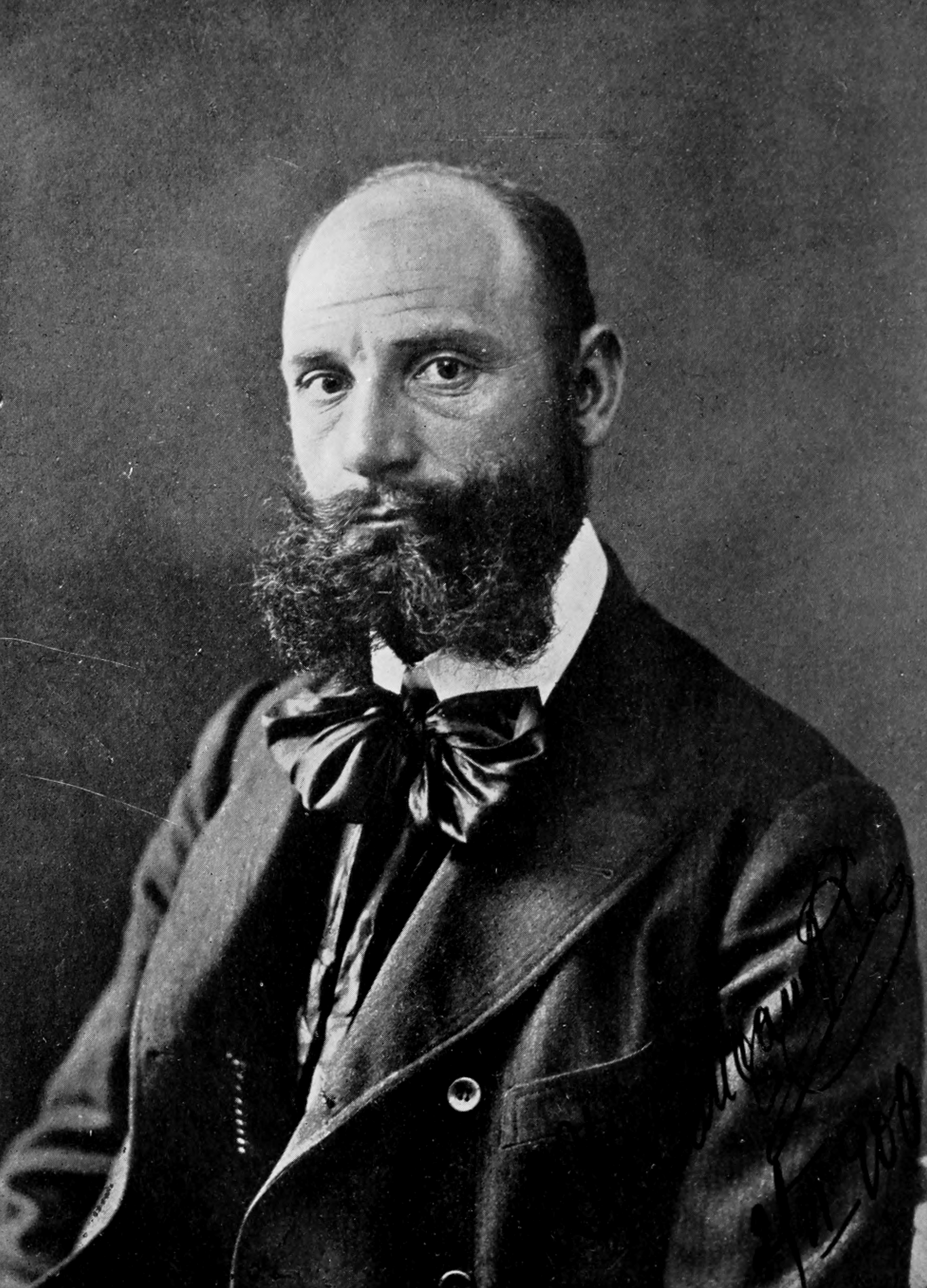 Yane Sandanski